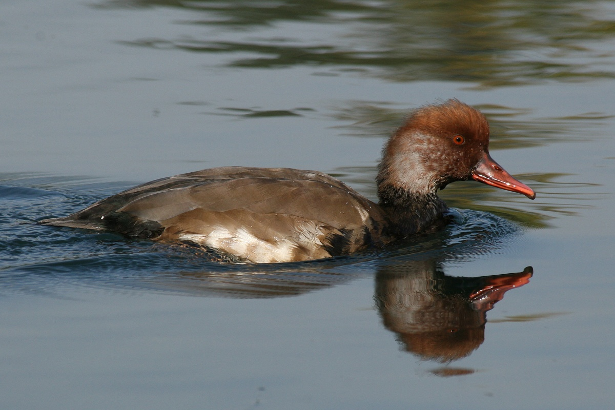 Fistione turco Netta rufina, male moulting out of eclipse plumage